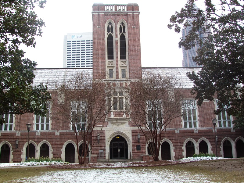 This is a quiet, snowy view of Britain Dining Hall on Georgia Tech's East Campus. Students living in nearby dormitories eat here.